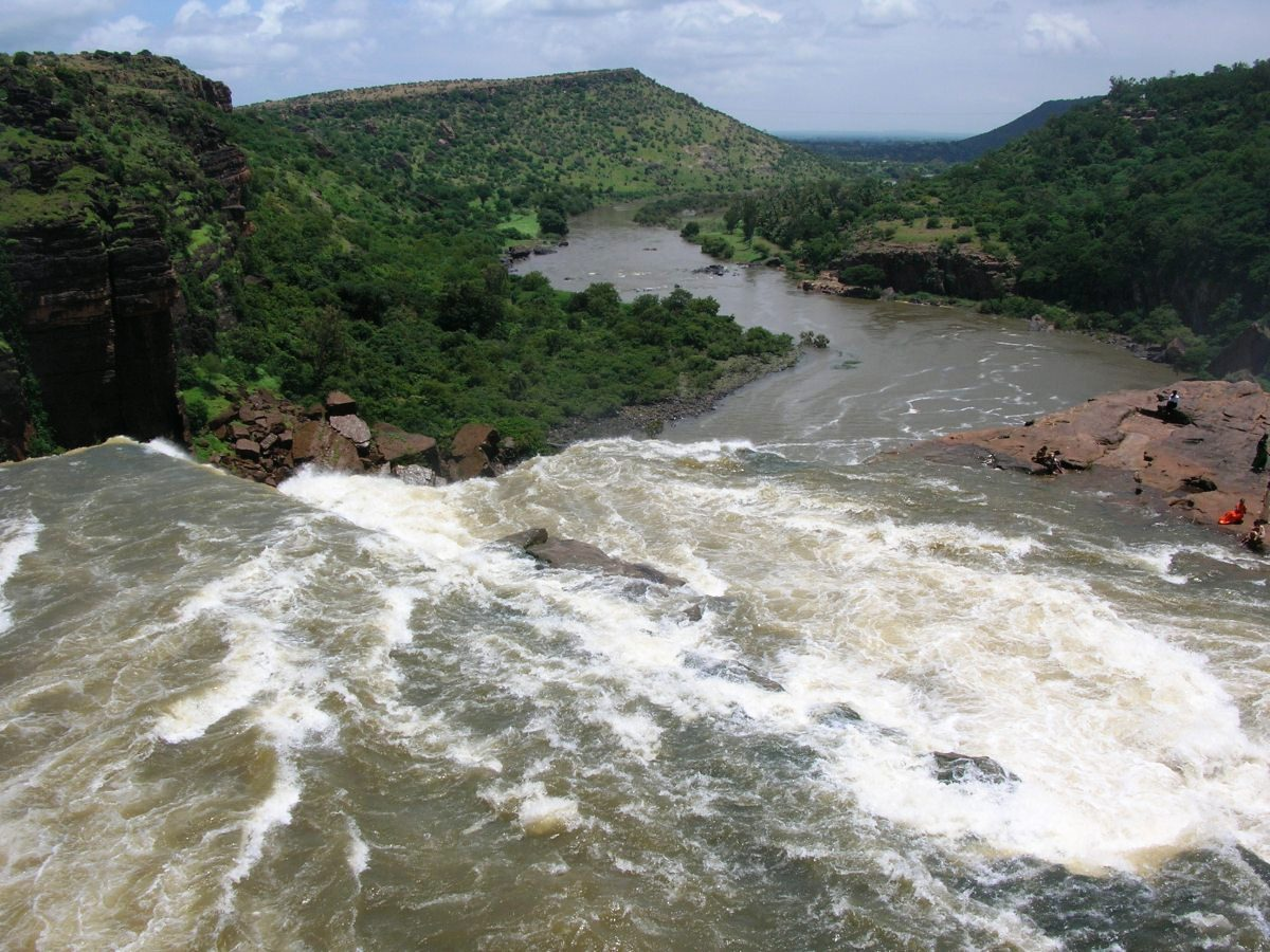 A view of Ghataprabha river from Hanging bridge at Gokak Falls